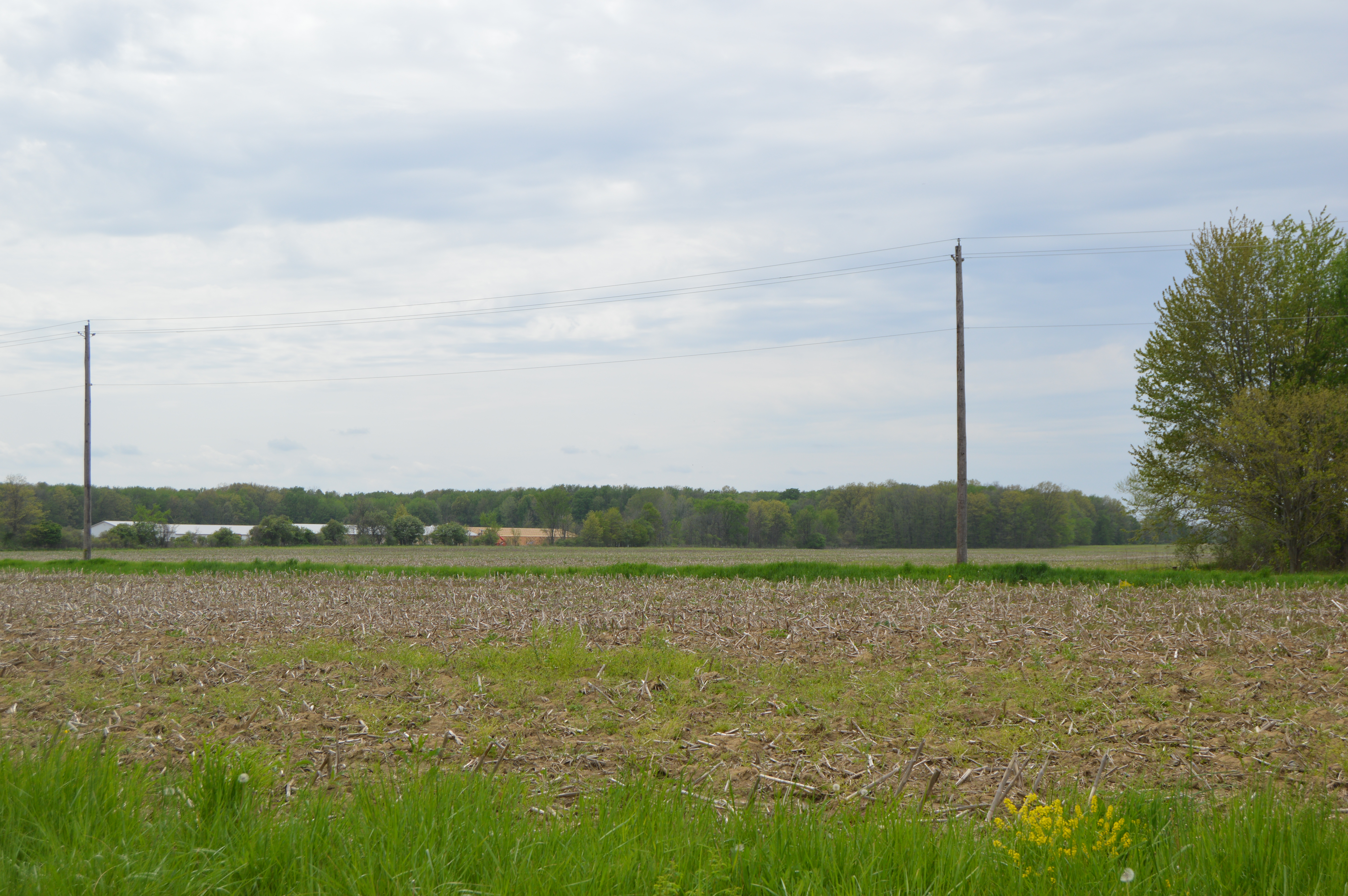 A stubble field on the western side of St. John Road southwest of Wakeman in Wakeman Township, Huron County, Ohio, United States.